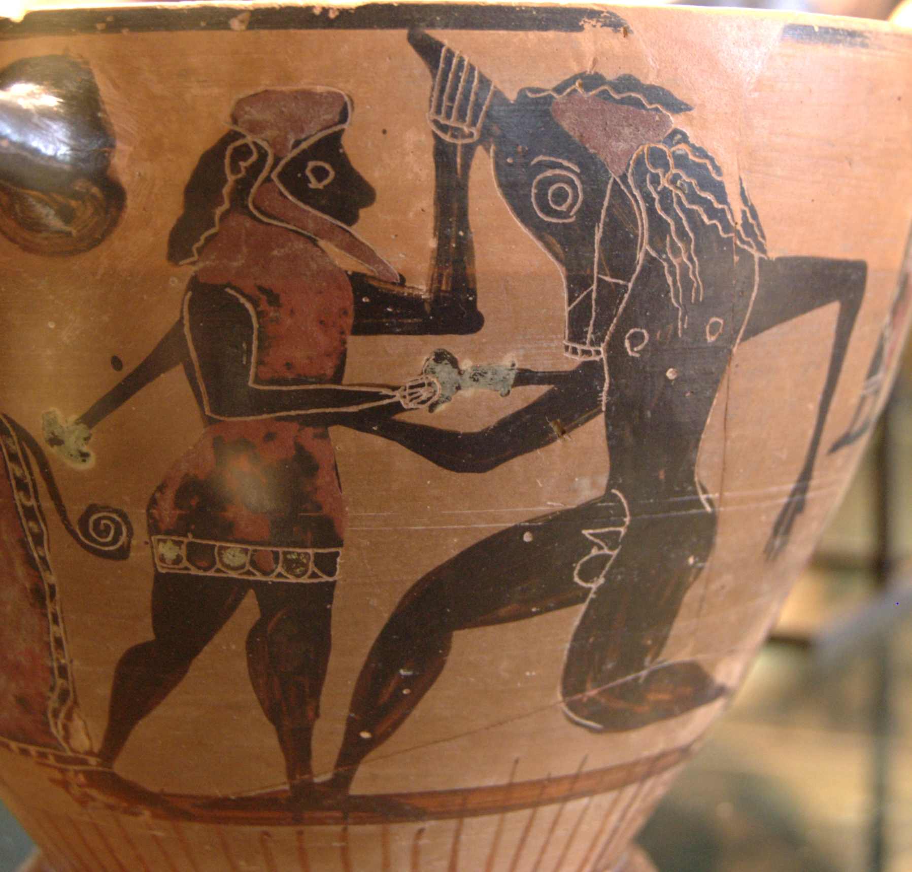 Theseus and the Minotaur. Side A from a black-figured Boeotian skyphos, ca. 550 BC.